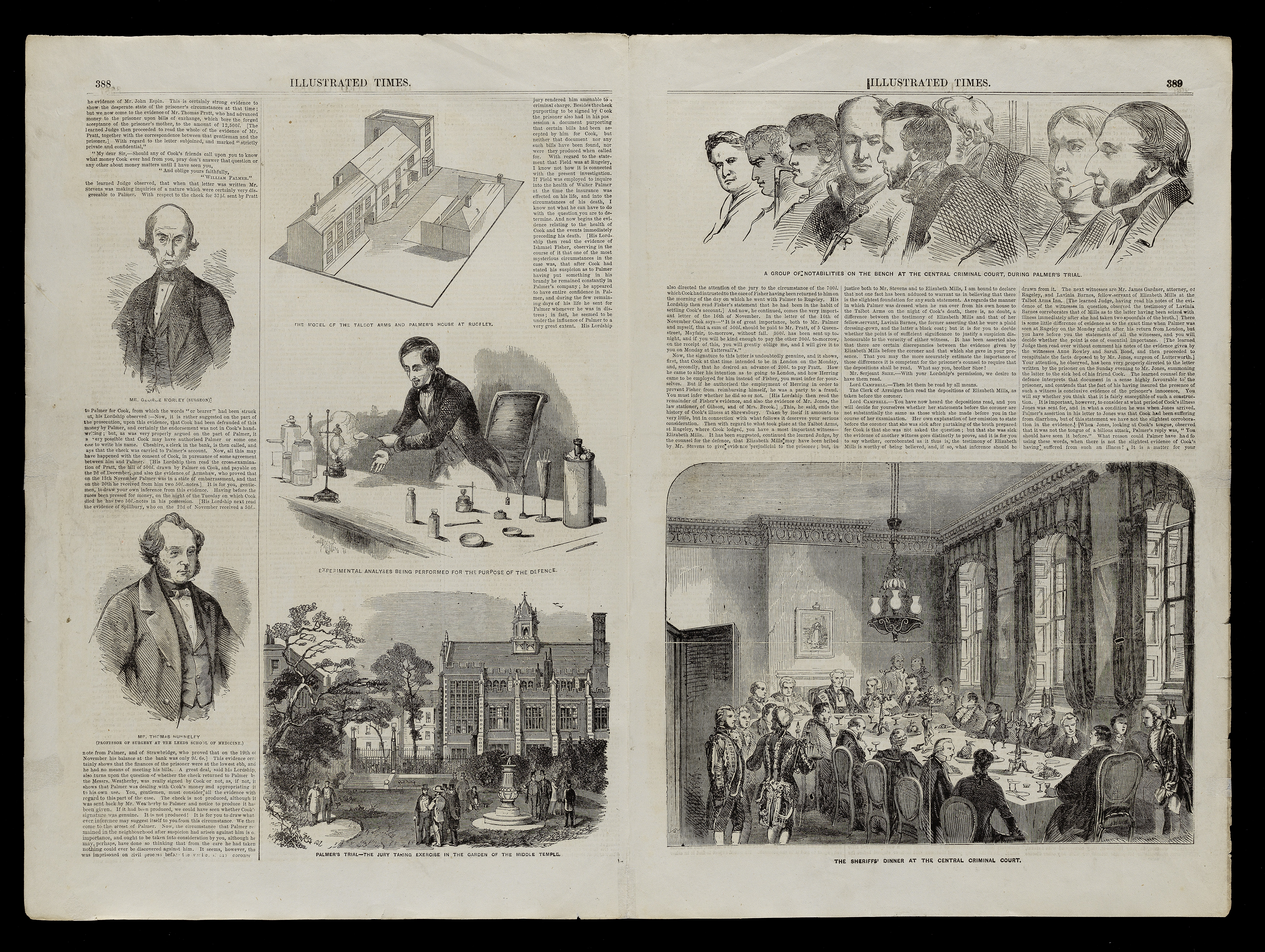 Trial of William Palmer : extra number of the Illustrated Times, 1856, May 27. General Collections Keywords: Forensic Sciences; Crime